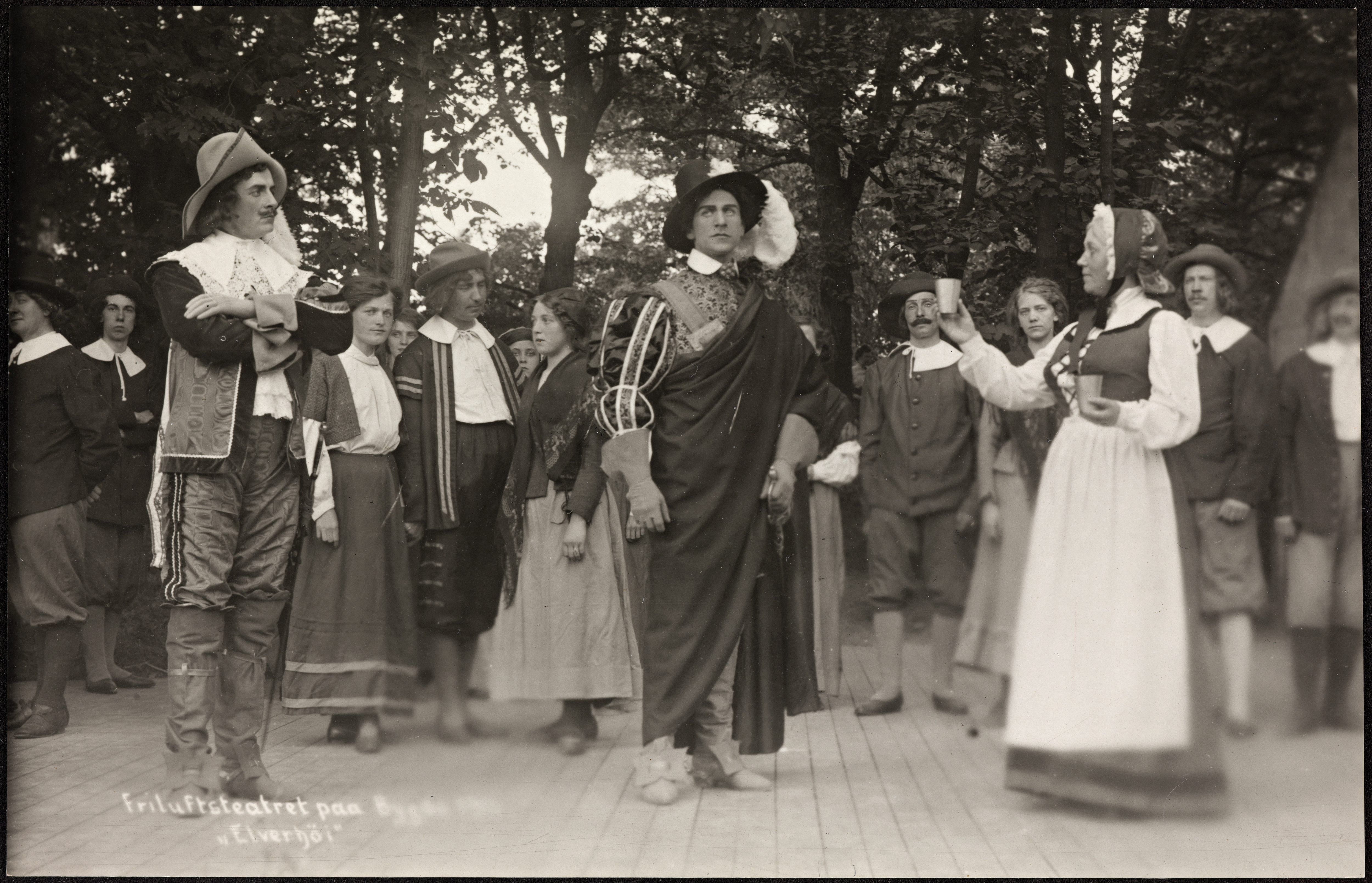 Beskrivelse / Description: The Danish National play "Elverhøj" at the open-air theatre at Bygdøy. "Elverhøj" av Johan Ludvig Heiberg med musikk av Friedrich Kuhlau (1828) er kjent som det danske nasjonalskuespillet. Dato / Date: 1911 Sted / Place: Oslo, Bygdøy, Friluftsteatret Fotograf / Photographer: Rude & Hilfling Utgiver / Publisher: Friluftsteateret Digital kopi av original / Digital copy of original: s/h postkort, sølvgelatin Eier / Owner Institution: Nasjonalbiblioteket / National Library of Norway Lenke / Link: Bildesignatur / Image Number: blds_07062